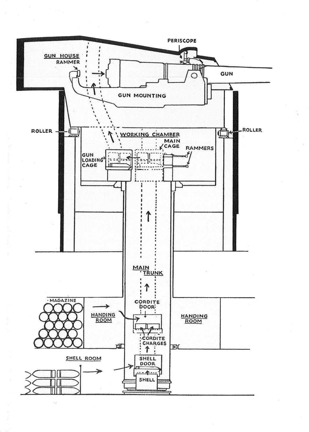 Fig. 24 Warship barbette and gunhouse Although undescribed, there is a general resemblance to the 13.5 inch mount of the Orion class